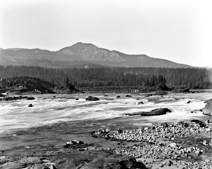 Cascades Rapids on the Columbia River, prior to inundation by the Bonneville Dam.